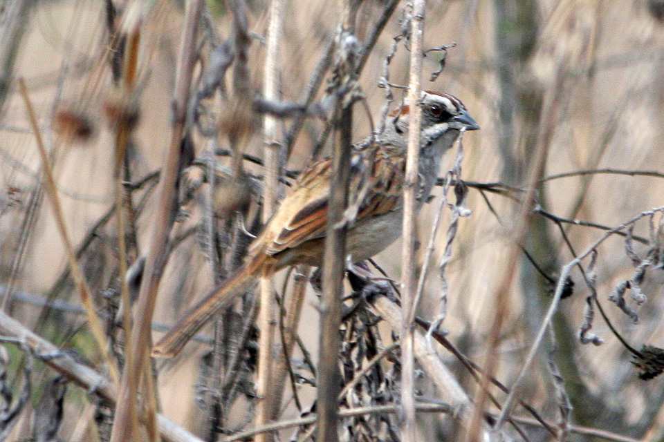 Stripe-capped Sparrow (Rhynchospiza strigiceps), Cachi to Salta, Salta, Argentina